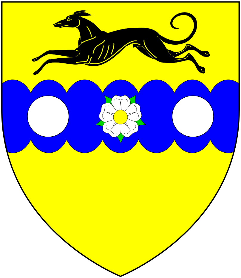 Arms of Hayne of Lupton in the parish of Brixham and ofFuge in the parish of Blackawton, both in Devon: Or, on a fess invected azure a rose argent seeded of the first barbed vert between two plates in chief a greyhound courant sable (Burke, Sir Bernard, Genealogical and Heraldic History of the Landed Gentry of Great Britain, Vol.I, London, 1871, p.605, pedigree of "Seale-Hayne of Fuge House and Kingswear Castle" [1])